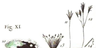 Illustration of Mucor penicillatus Bulliard